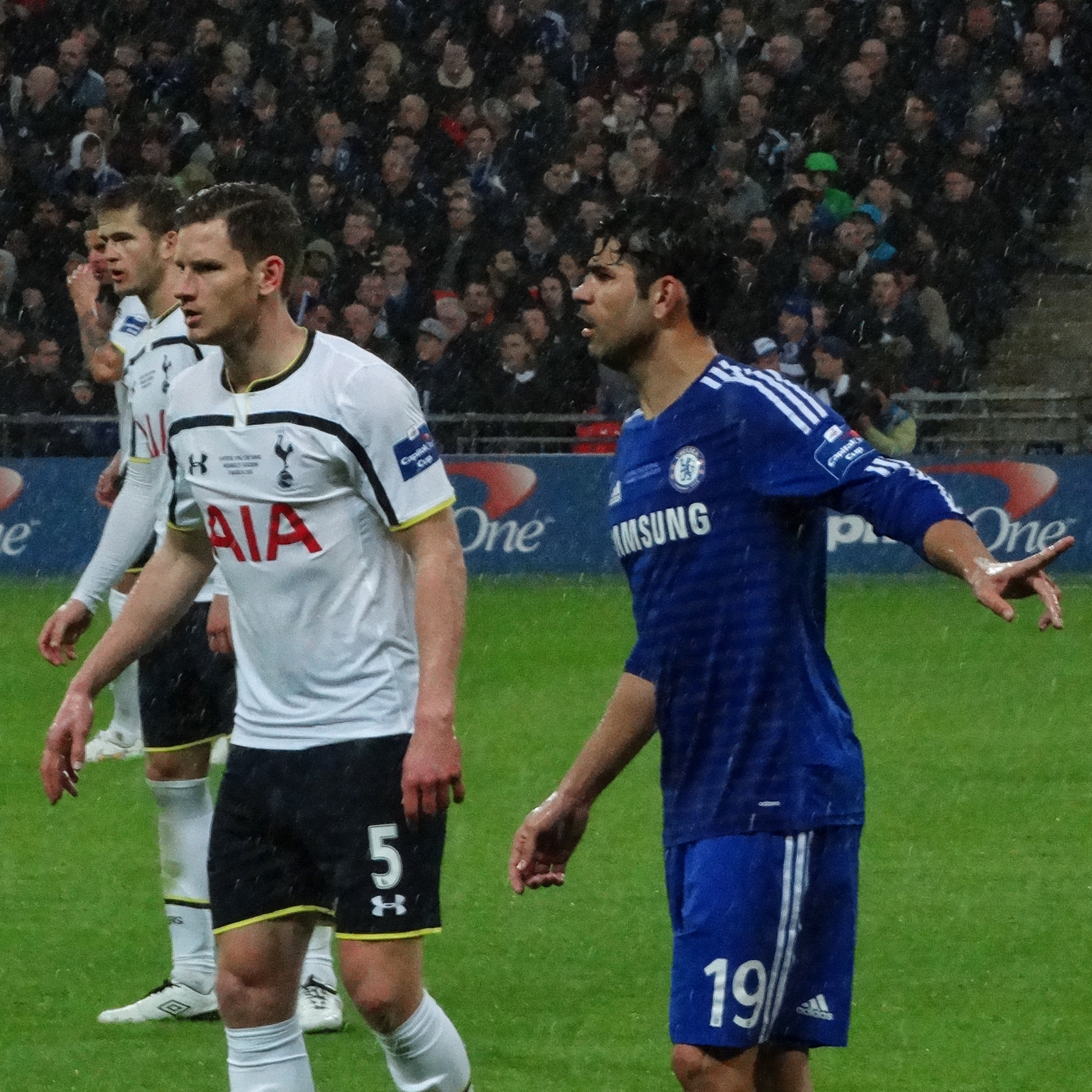 Chelsea 2 Spurs 0 Capital One Cup winners 2015